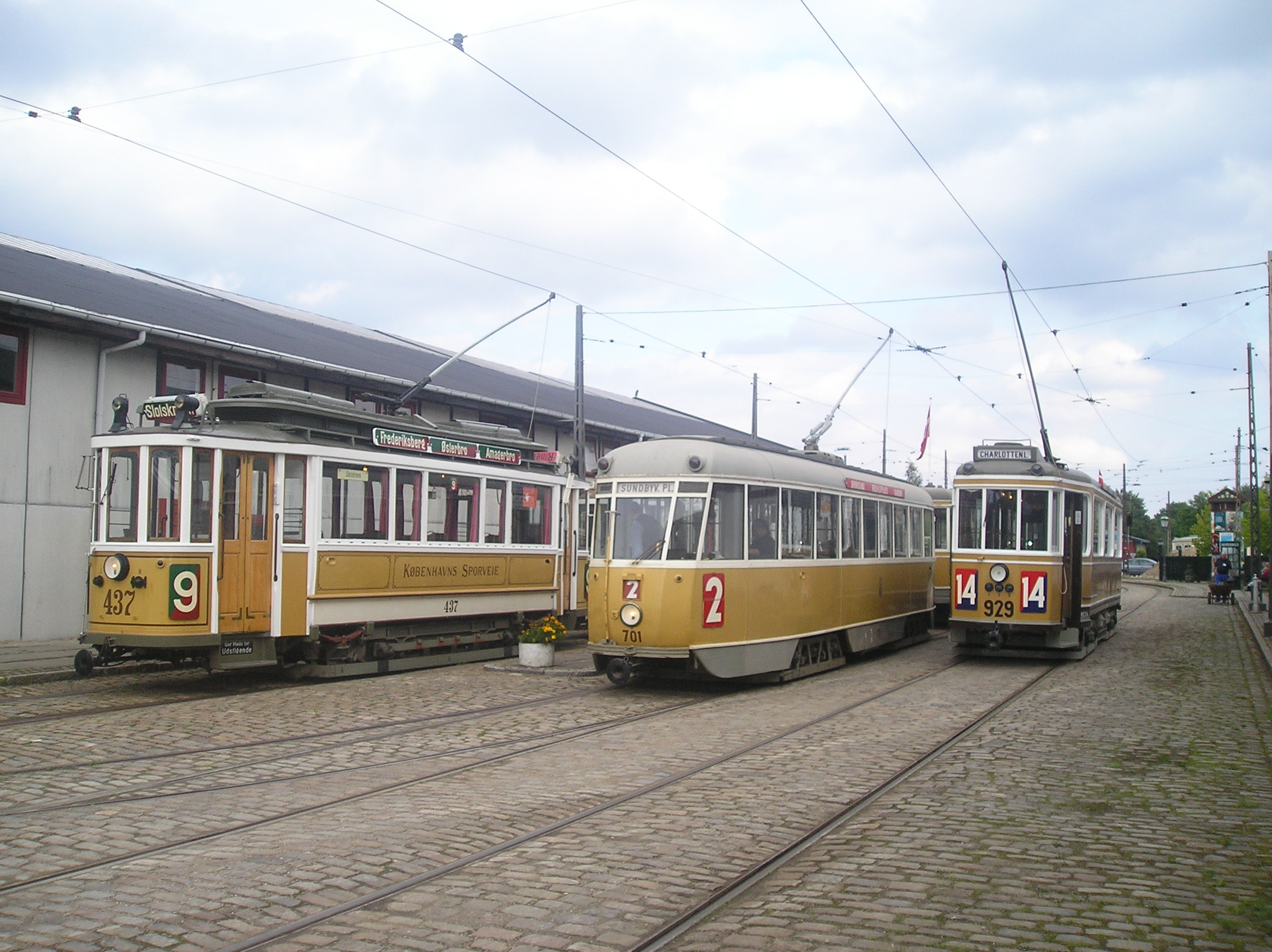 Old trams from Copenhagen KS 437, KS 701 and NESA 929 at Sporvejsmuseet Skjoldenæsholm in Denmark.